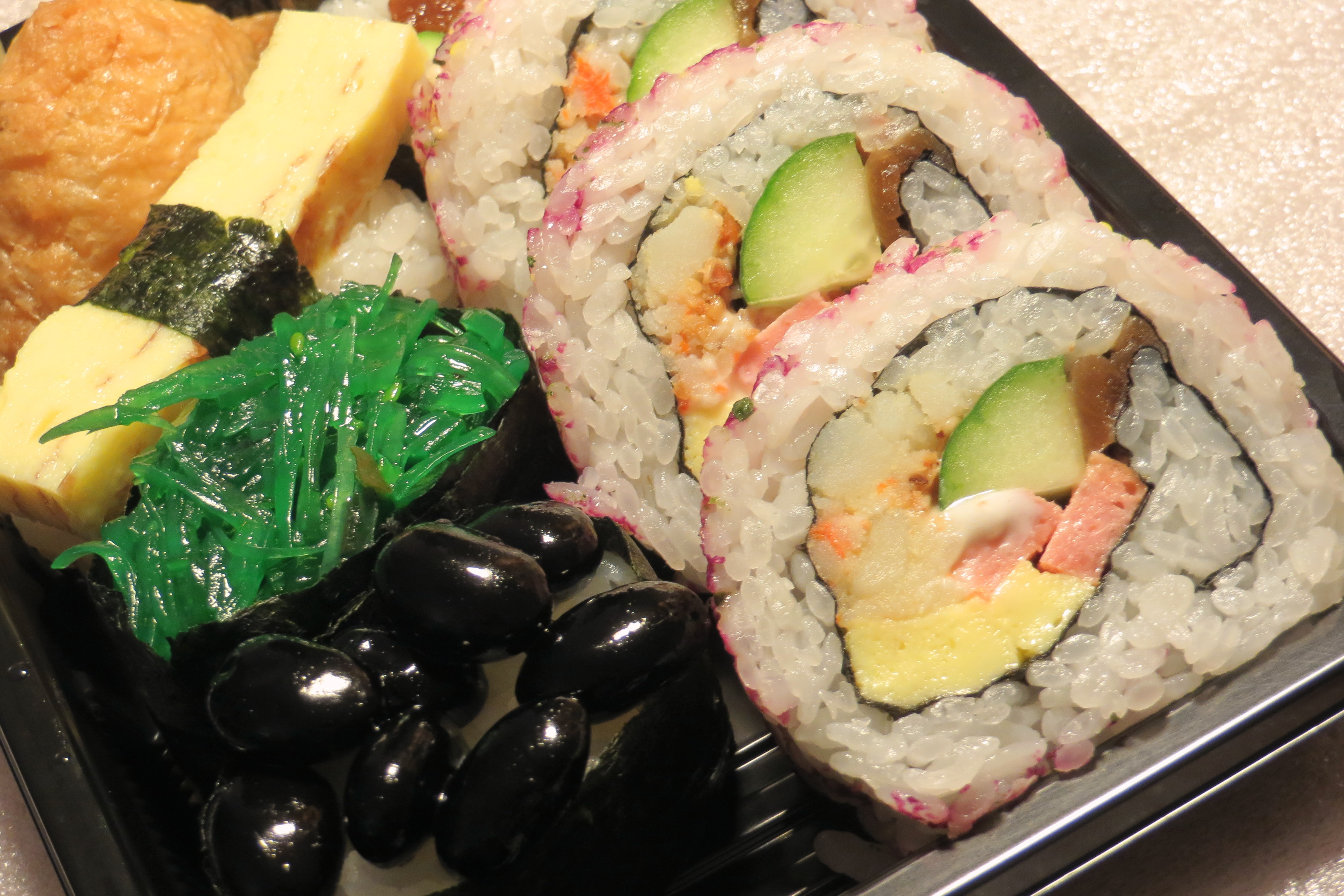 Lacto-ovo vegetarian sushi rolls